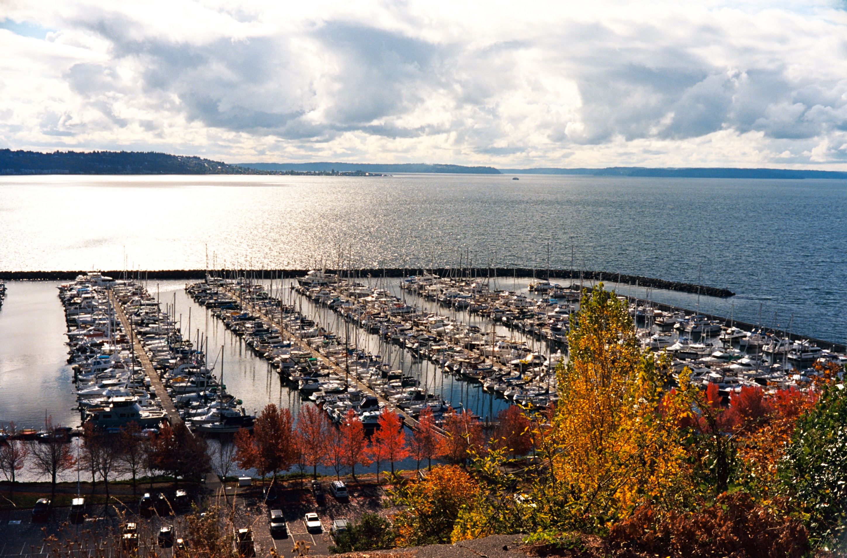 Elliott Bay Marina. Seen from overlook on 1400 block of 28th Ave W, in Magnolia, Seattle, Washington.